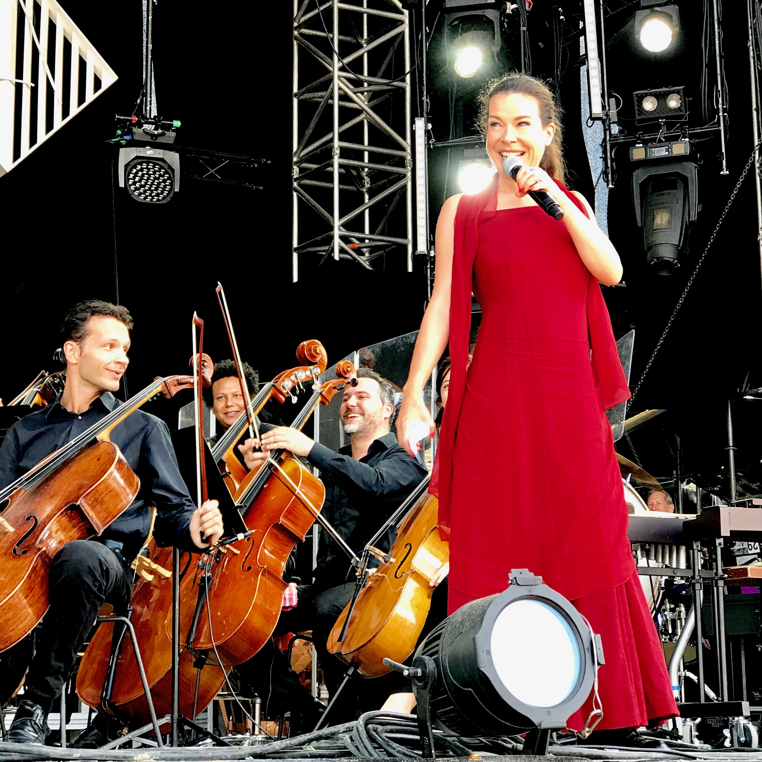 Sibylle Blanc introducing l'Orchestre de Chambre de Genève at the Paléo Music Festival 2017